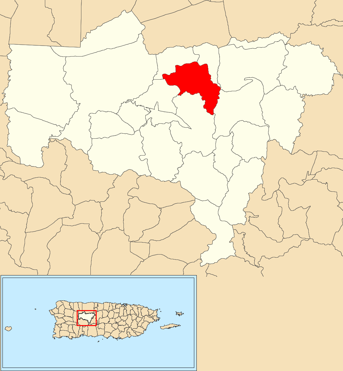 Sabana Grande, Utuado, Puerto Rico locator map